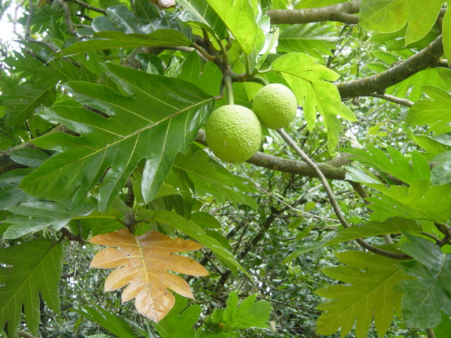 Artocarpus altilis of Hawai'i